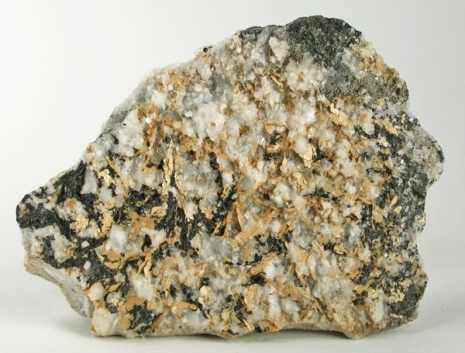 Pyroaurite, Pyrochroite Locality: Långban, Filipstad, Värmland, Sweden (Locality at ) Size: 9.6 x 7.2 x 1.8 cm. Pearlescent, tan blades of pyroaurite are richly scattered amongst black pyrochroite crystals on calcite matrix on this excellent combination specimen from the world-famous Langban deposit. Pyroaurite is a rare hydrated magnesium, iron carbonate and Langban is the Type Locality. This is a very rich example of pyroaurite in combination from the Dr. Mark Feinglos Collection, a noted rarities collector.